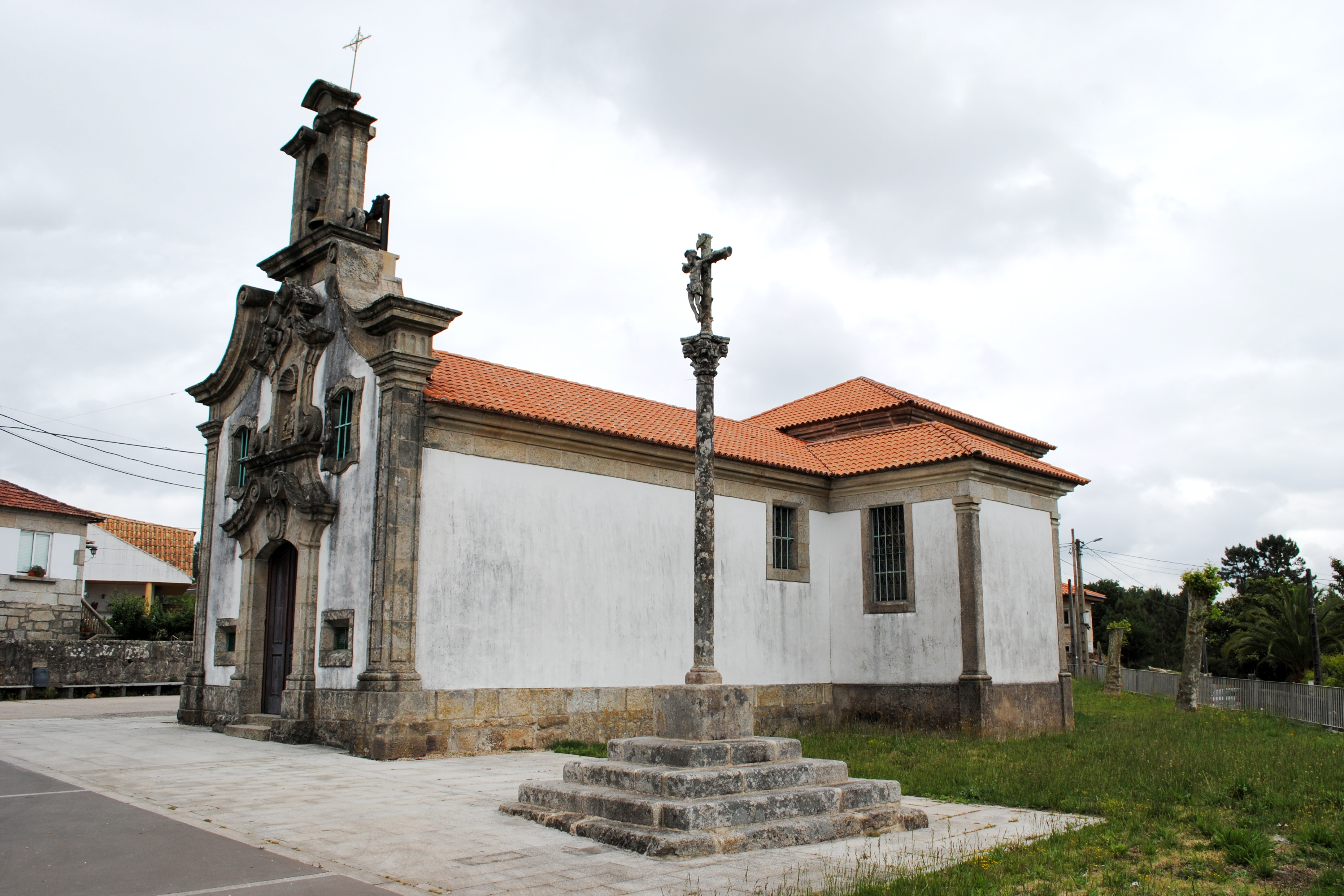 See title